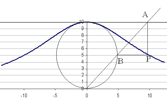 The curve known as witch of Agnesi, honouring the Italian mathematician Maria Gaetana Agnesi. Also known as Versiera